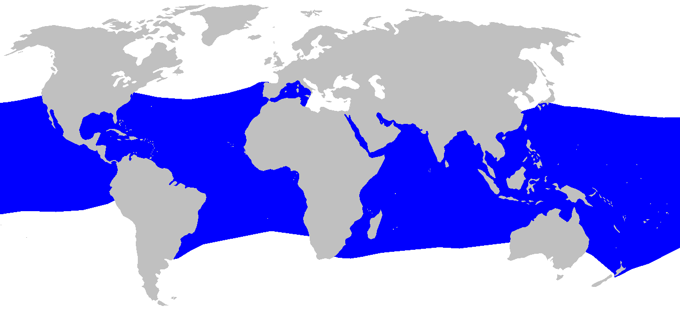 Distribution map for Alopias superciliosus